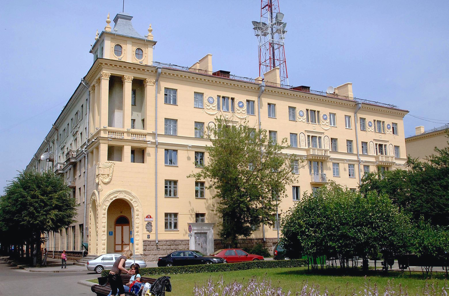 APARTMENT BUILDING IN WHICH LEE HARVEY OSWALD LIVED BRIEFLY